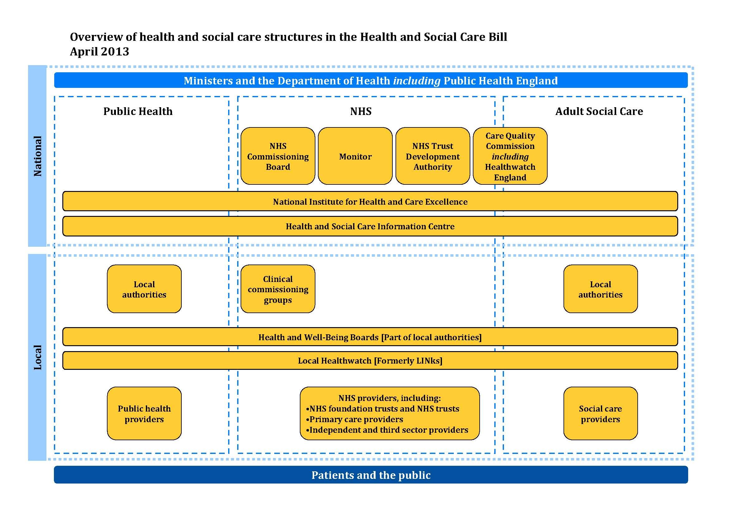 This organisational chart shows the structure of the English NHS from April 2013 onwards, once all the changes outlined in the Health and Social Care Act 2012 have been implemented.